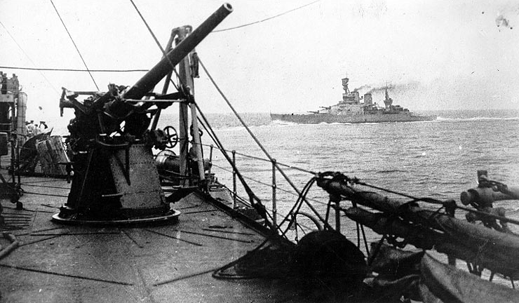 The Royal Navy battlecruiser HMS Renown steaming at high speed, circa 1916-17, as seen from the high-angle gun platform of another British warship. The gun in the foregroundis a QF 3 inch 20 cwt anti-aircraft gun. Note that Renown still has her original searchlight installation, which was replaced later in 1917.